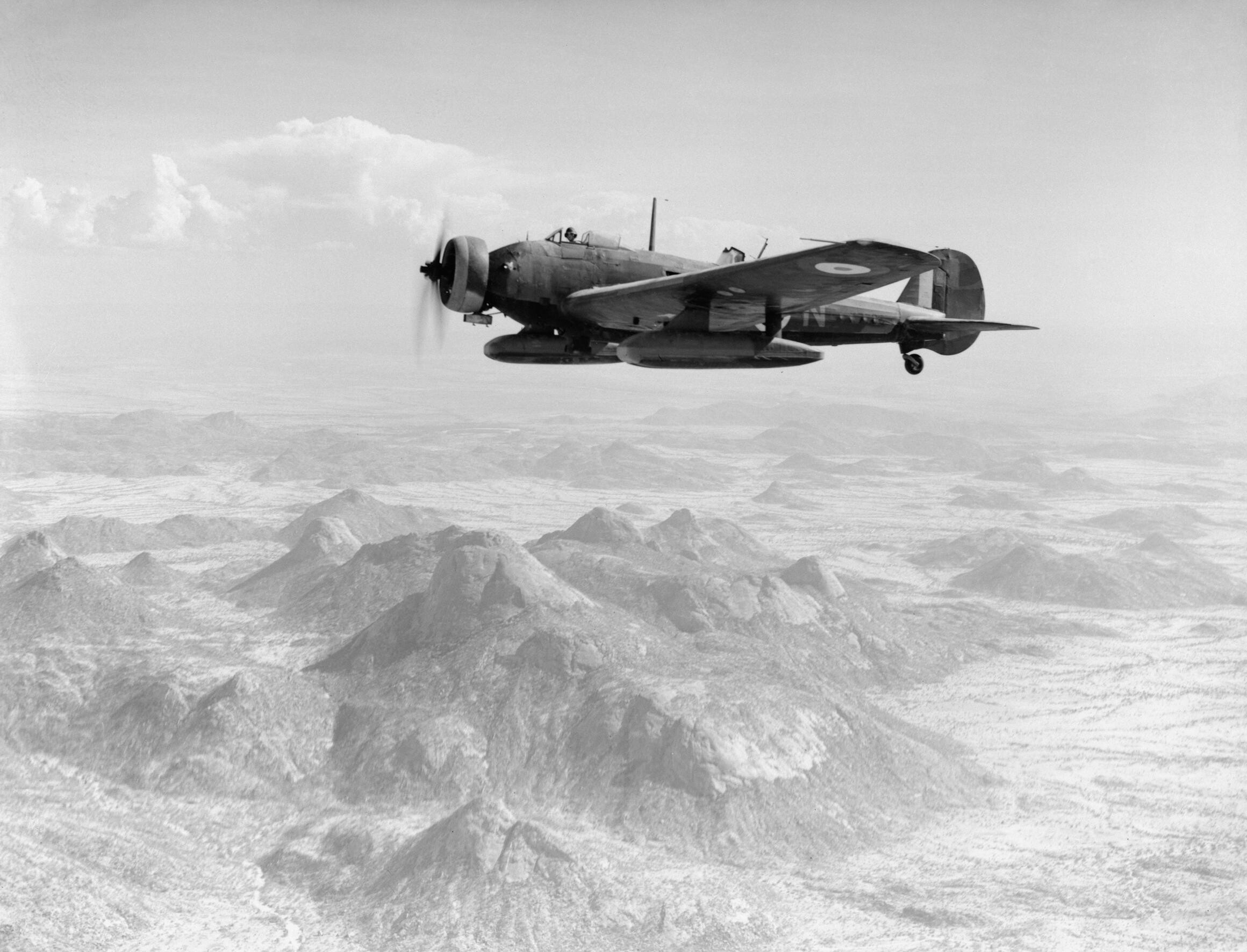 Vickers Wellesley Mk I of No. 47 Squadron on a bombing mission to Keren, Eritrea, 2 April 1941. Wellesley Mark I, K7775 ‘KU-N’, of No. 47 Squadron RAF based at Agordat, Eritrea, in flight during a bombing mission to Keren.